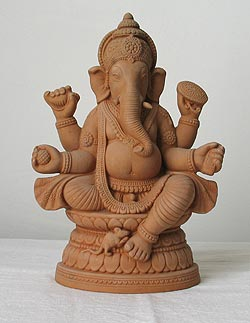 Photo perso de Ganesh Source : Shakti Statut : GFDL dans ce format Shakti